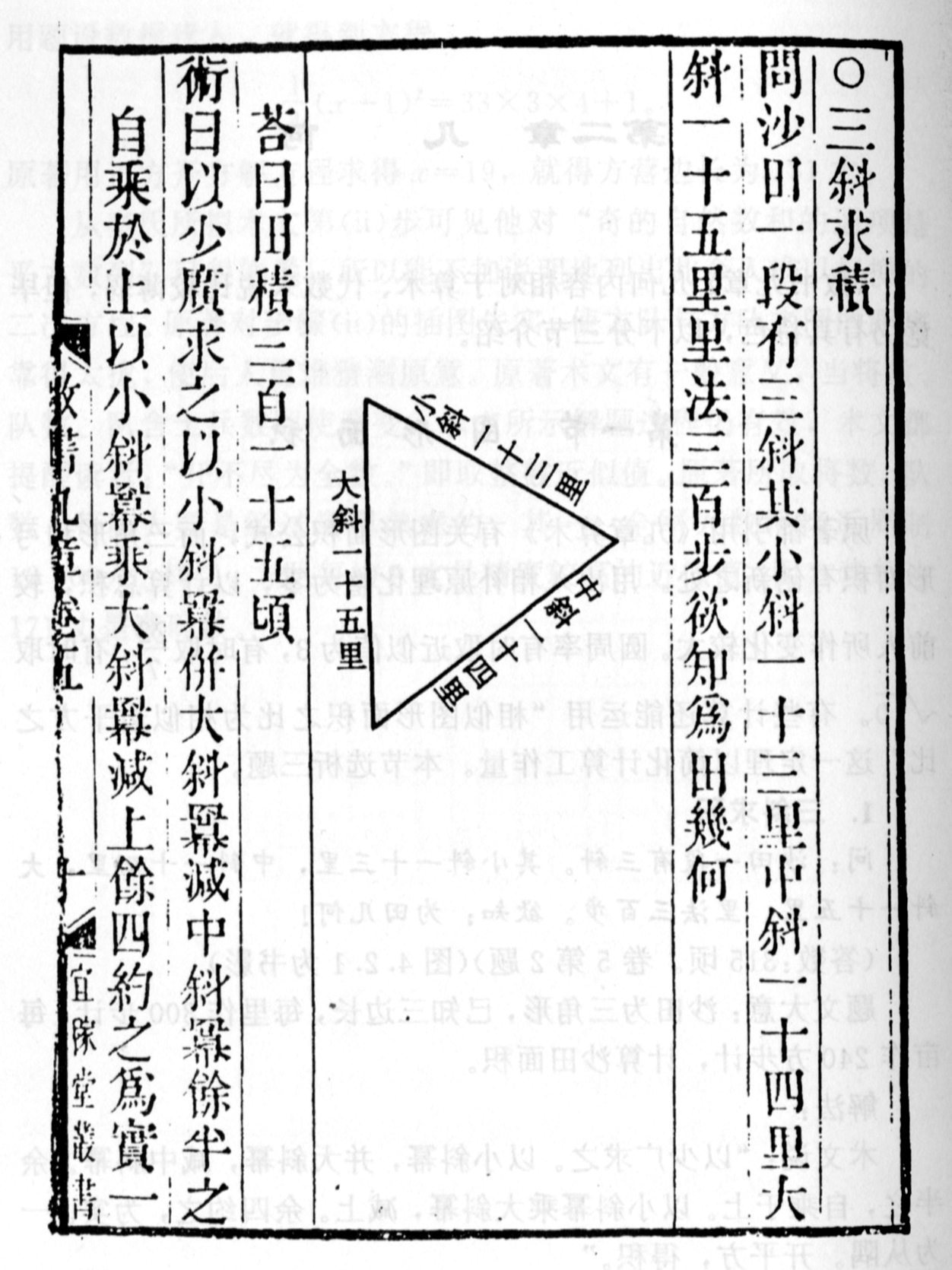 Triangle area from three sides 数书九章 三斜求积